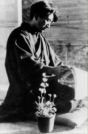 Dazai at his home. mitaka,tokyo.